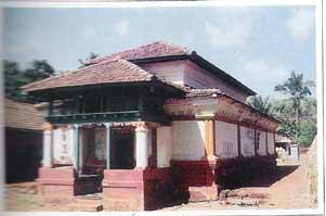 Shri Gauda Padacharya Mutt at Halge.